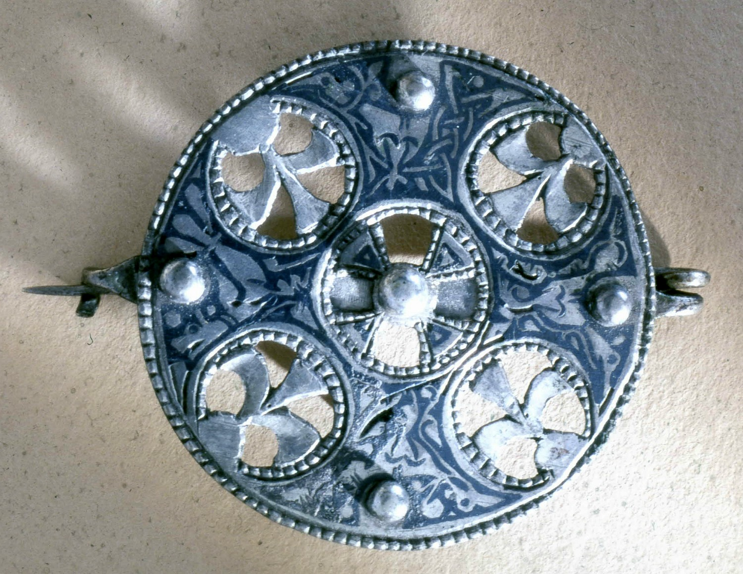 Trewhiddle style silver openwork disc brooch. Niello background.